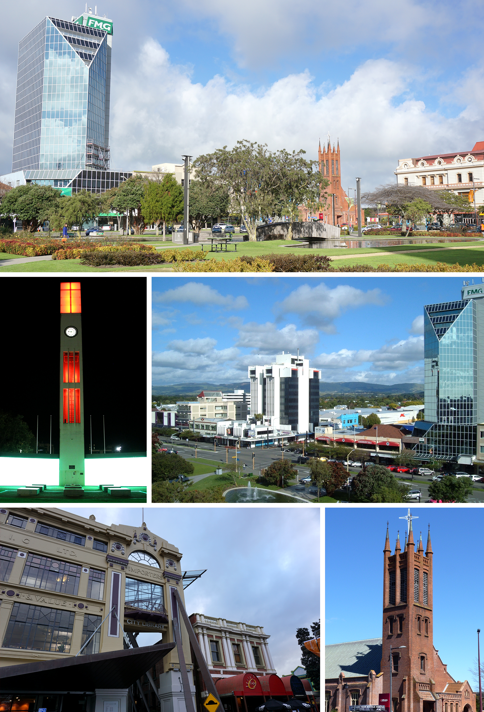 Photo collage of Palmerston North, New Zealand